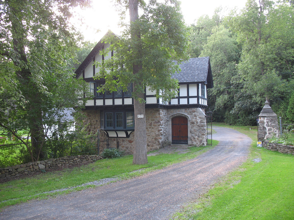 Gatekeeper's lodge, built in 1900